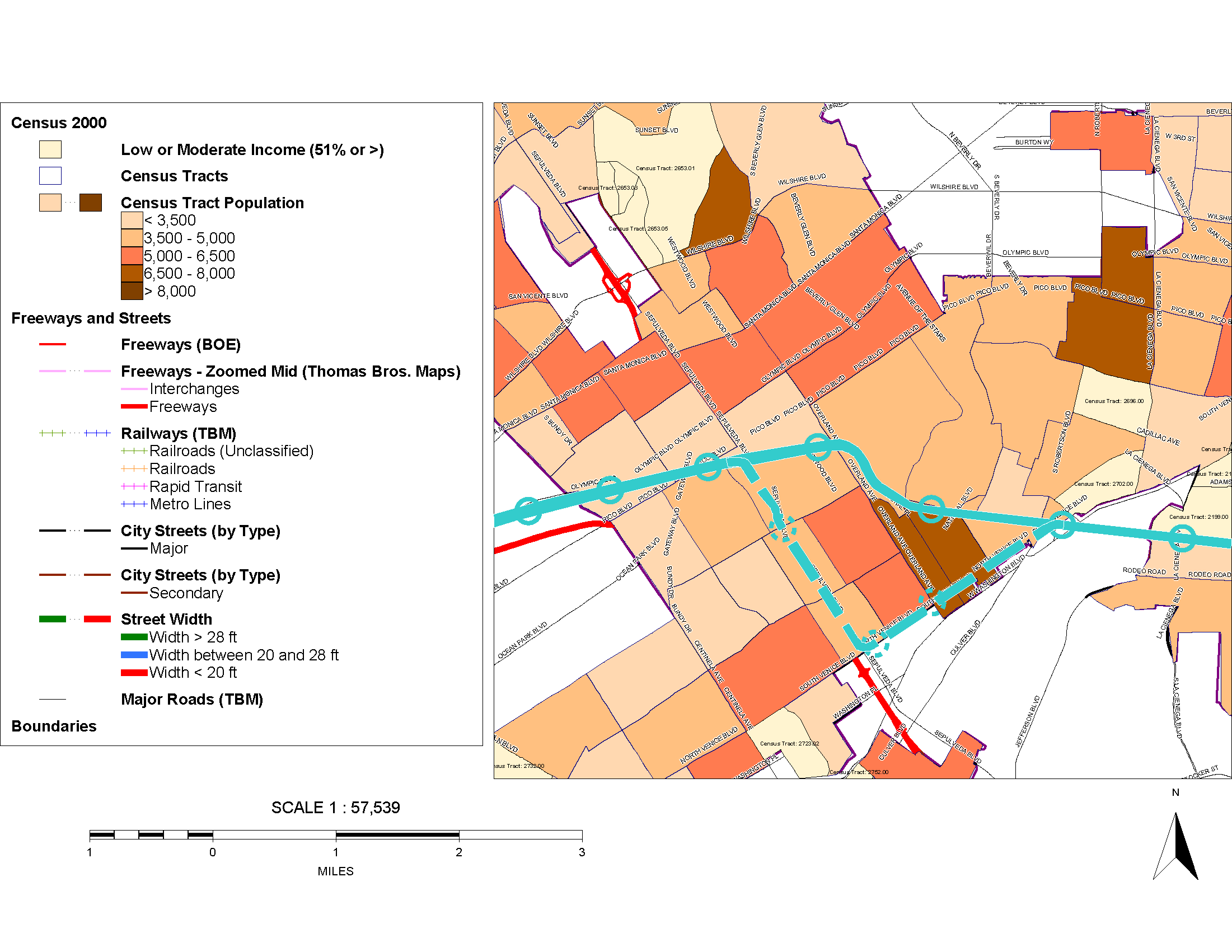 Venice/Sepulveda Boulevards diversion option for the Metro Expo Line, shown as the dashed aqua line, and the original right-of-way alignment, shown as the solid aqua line. Also shown are the population densities in the City of Los Angeles. Both alignment options serve the high-density population areas of Palms and Westside Village equally well, through the Motor Ave–Palms/National/Exposition Boulevards station for the original right-of-way alignment and through the Overland Ave/Venice Blvd station for the diversion option. The original right-of-way alignment, through the Westwood Blvd–Overland Ave/Exposition Blvd station, serves the high-density population areas of the Pico Blvd vicinity, Century City, and Westwood better than the diversion option. On the other hand, the diversion option serves the high-density population area of Culver City better than the original right-of-way alignment. Historically there used to be passenger and freight rail both on the Exposition Blvd right-of-way and on Venice Blvd, pointing to the significance of both alignment options.